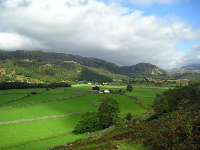 Duddon Valley, Cumbria Beautifully illustrates a glaciated valley